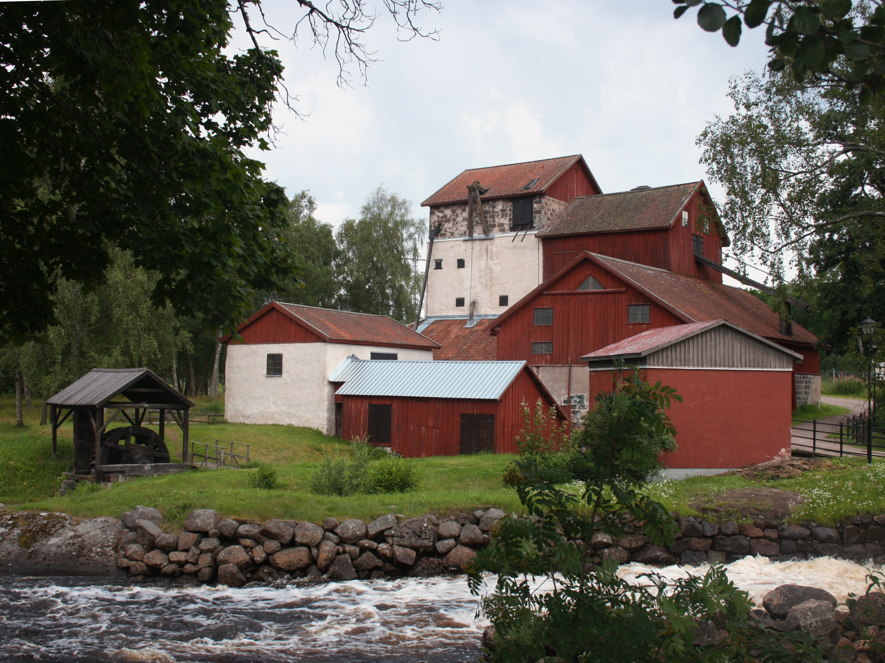 Filipstad, Sweden. Storbrohyttan iron foundry, view from North-East. See also: [1]